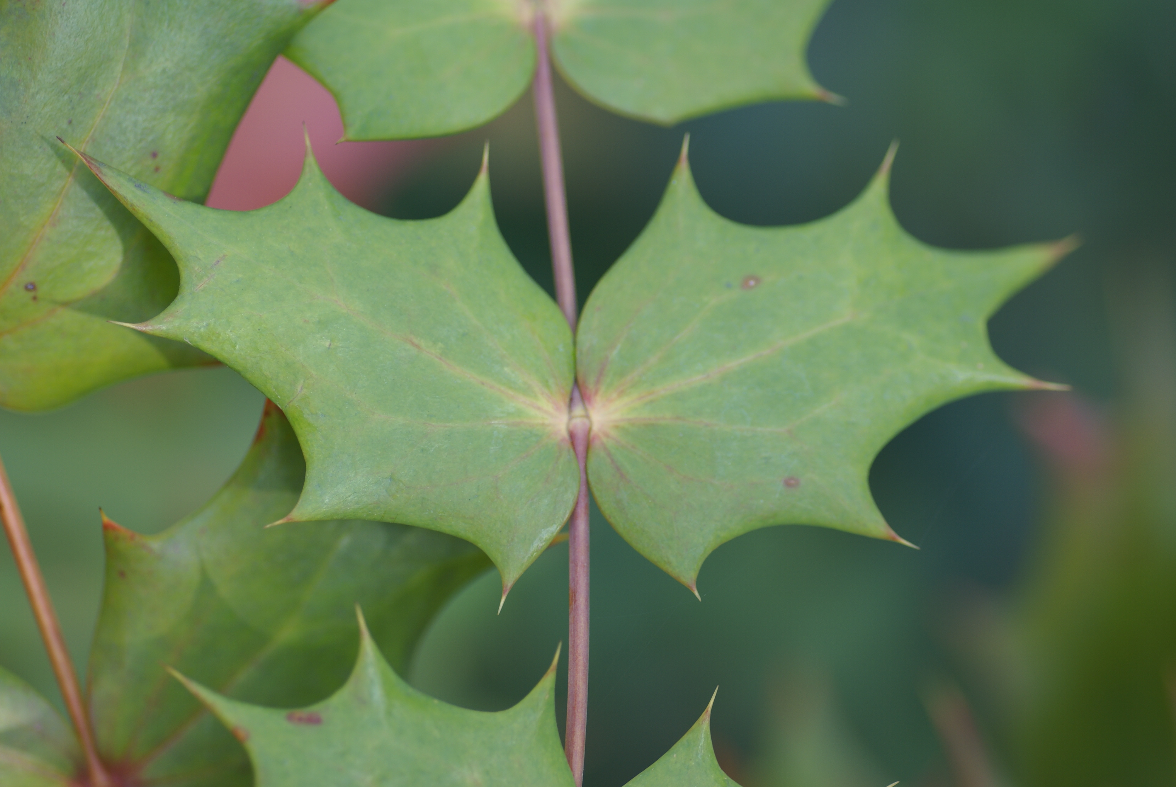 Plant species Mahonia japonica in Jindai Botanical Garden in Tokyo